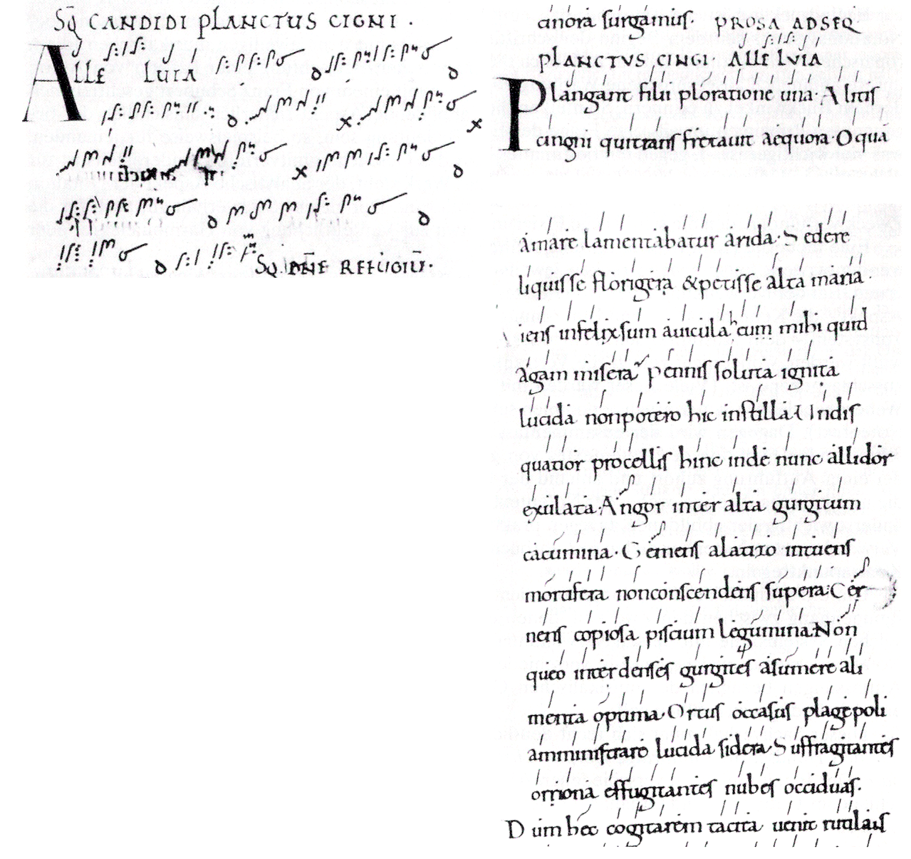 Winchester Troper, a music manuscript dating from around 1000, used at Winchester Cathedral.